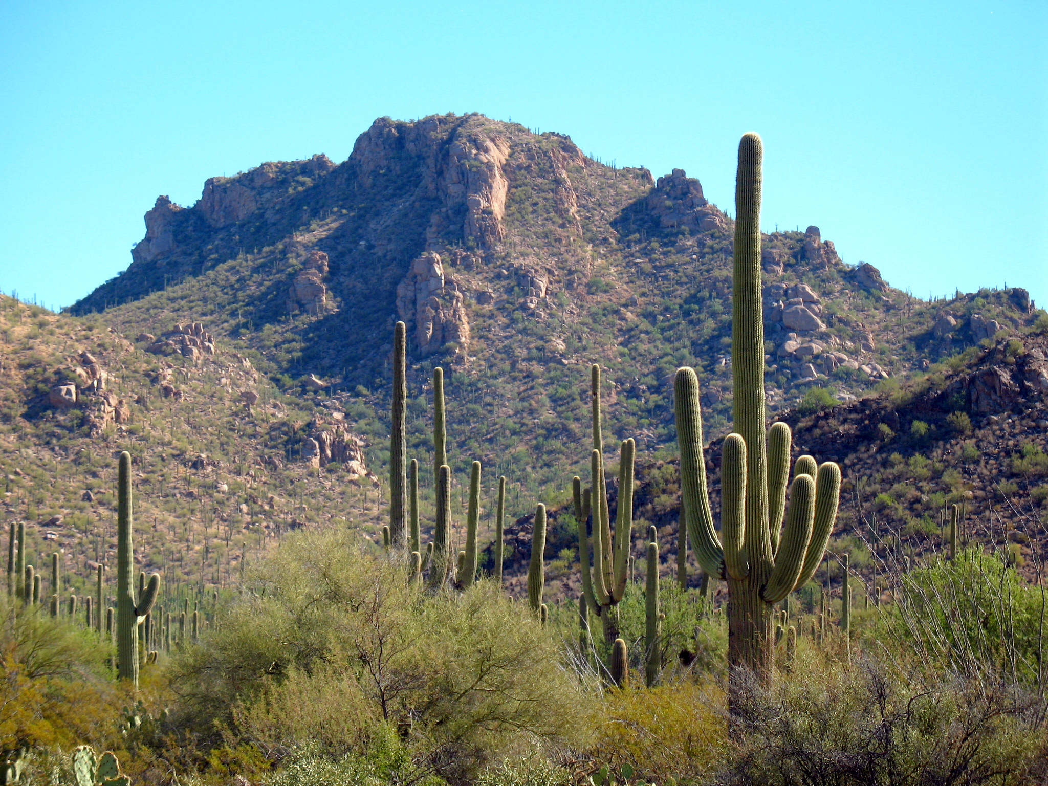 Saguaro National Park, Arizona, USA